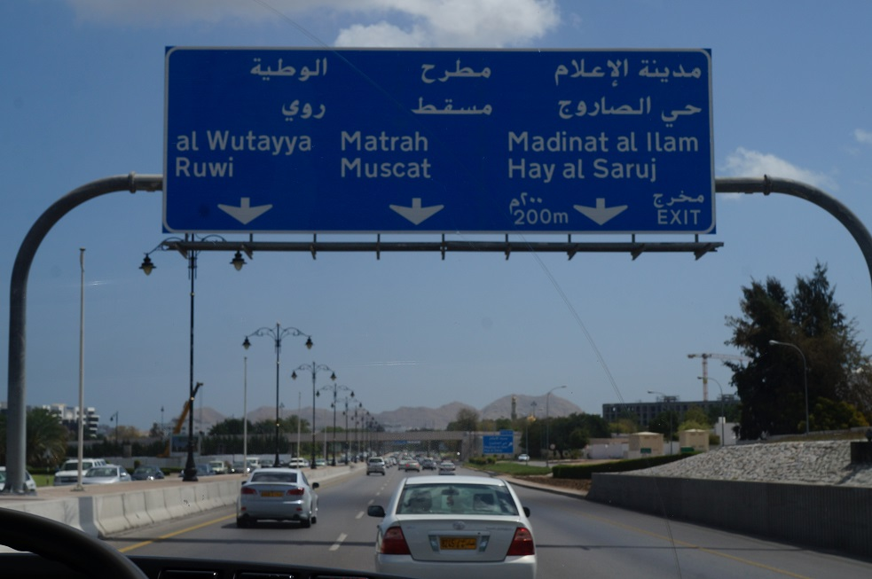 Sultan Qaboos Highway in 2014.